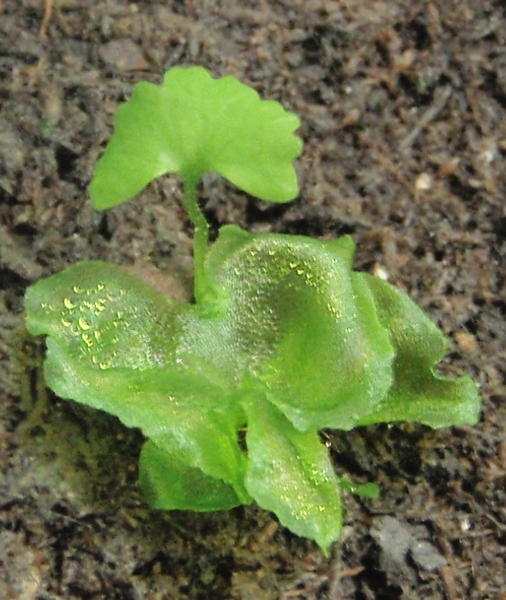 Gametophyte and sporophyte of the fern Onoclea sensibilis (barring contamination) sown in October of the same year from material from the previous fall (with a low germination rate).